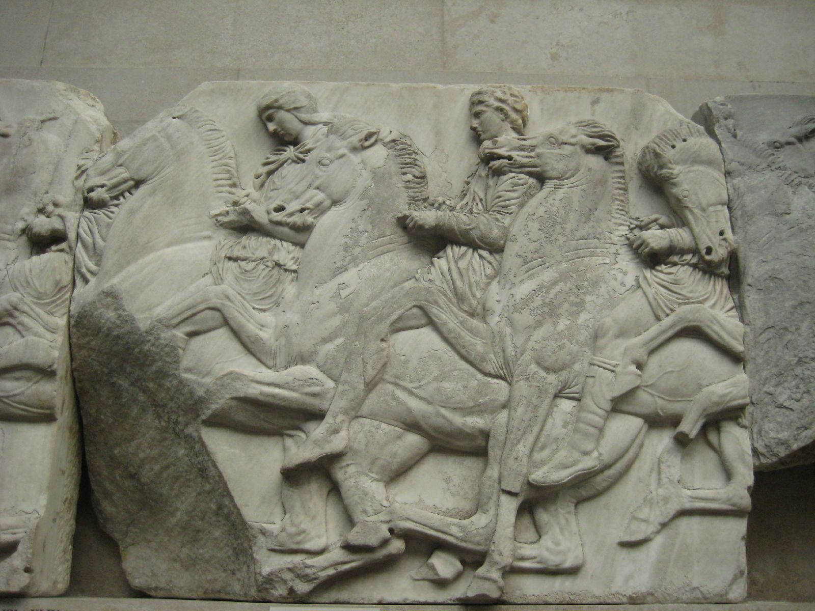 Cavalcade. Elgin Marbles. Greek, from the Parthenon. 5th century BC.